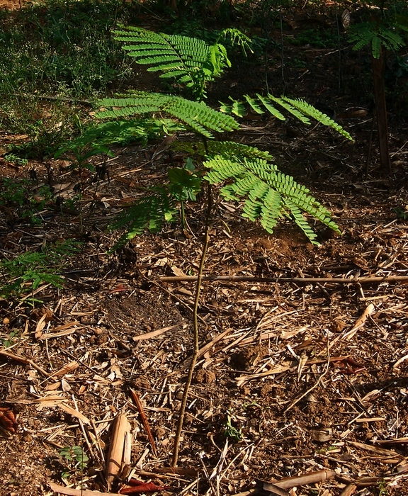 Paraserianthes falcataria seedling. Banyumas, Central Java, Indonesia